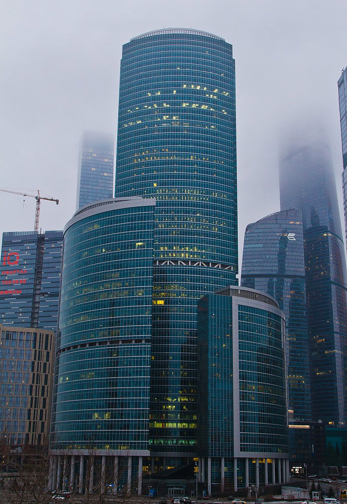 Naberezhnaya Tower in Moscow